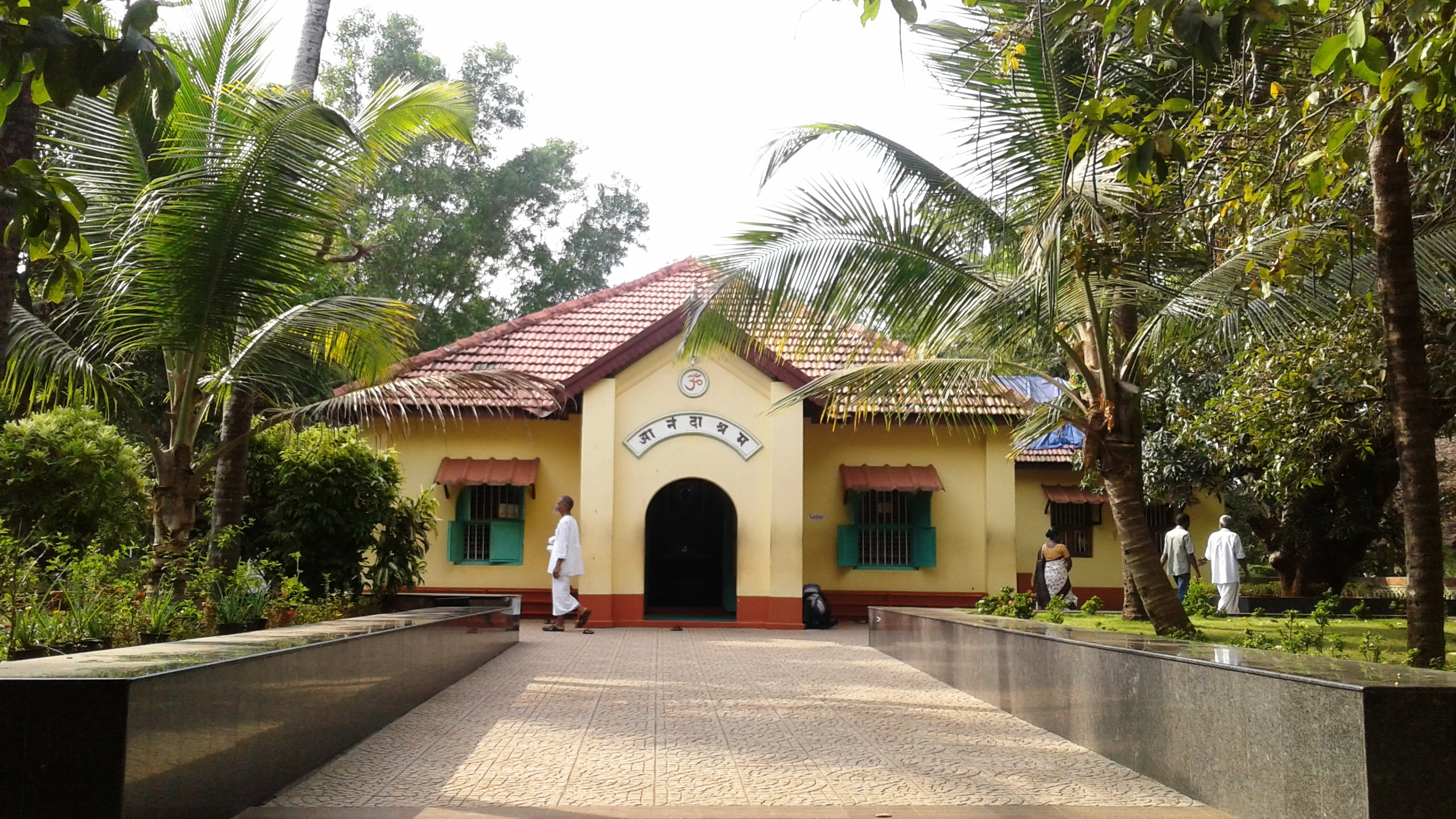 Kasaragod - Kanhangad road, Kasaragod District, Kerala state, India.